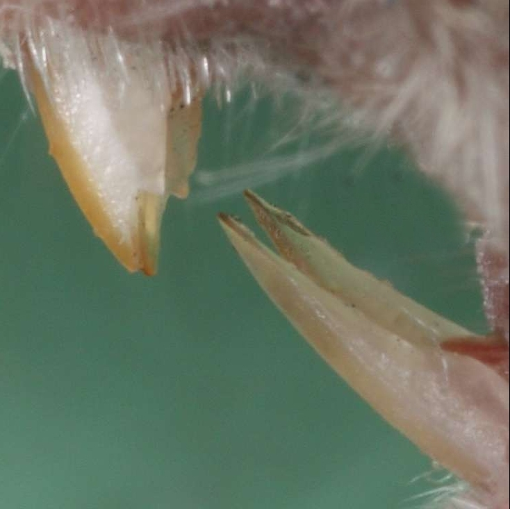 Front teeth of House Mouse Mus musculus showing the species spesific notch in upper teeth.